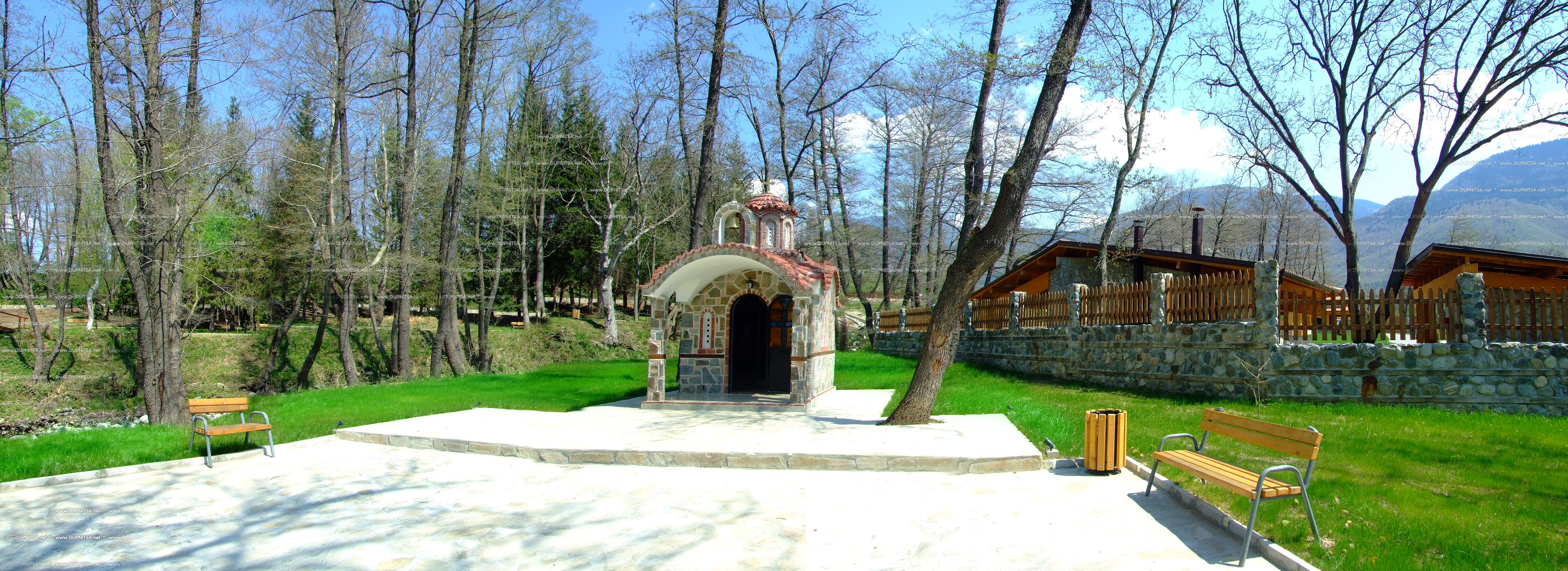 Chapel in the Park Rila